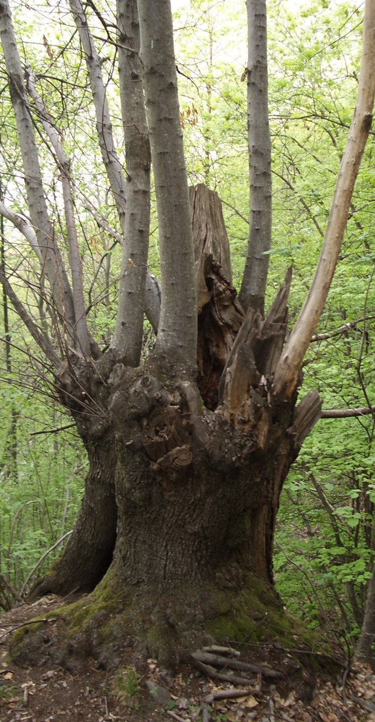 Natural pollarding? Valle Verzasca, Switzerland self-made, May 2006